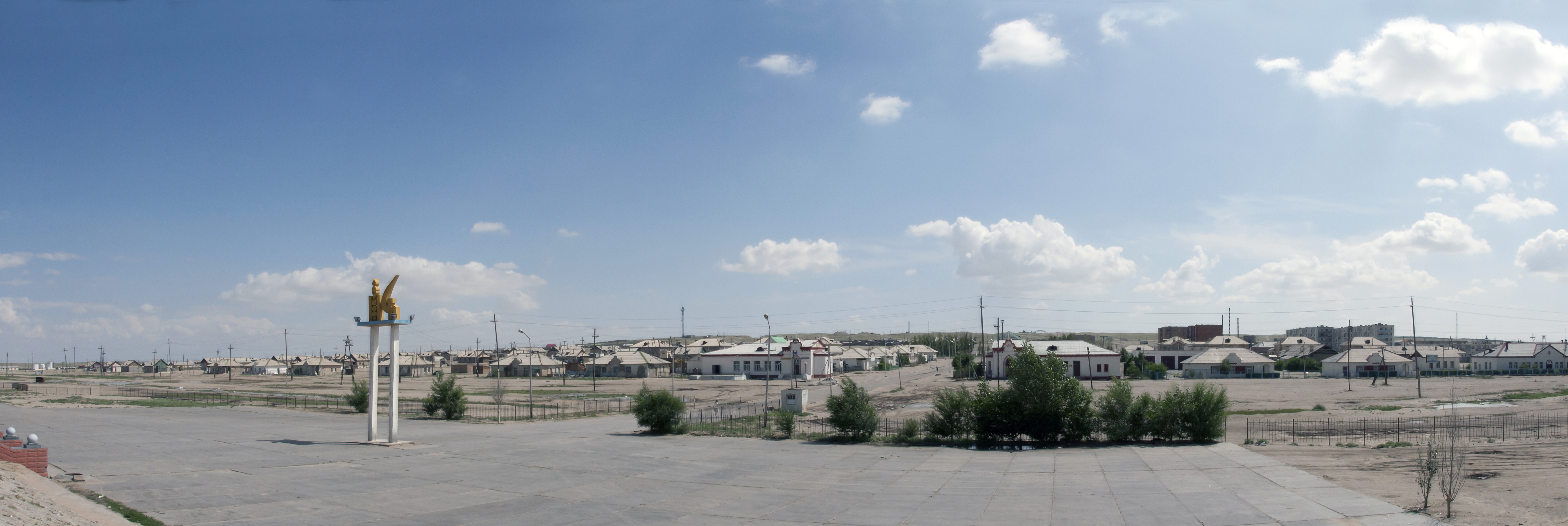 Northern parts of the Mongolian city Sainshand as seen from the railway station. The picture is a panoramic stitch from 8 separate exposures.